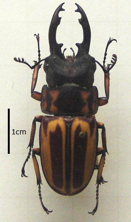 Prosopocoilus zebra (Lucanidae), mounted specimen from Java.